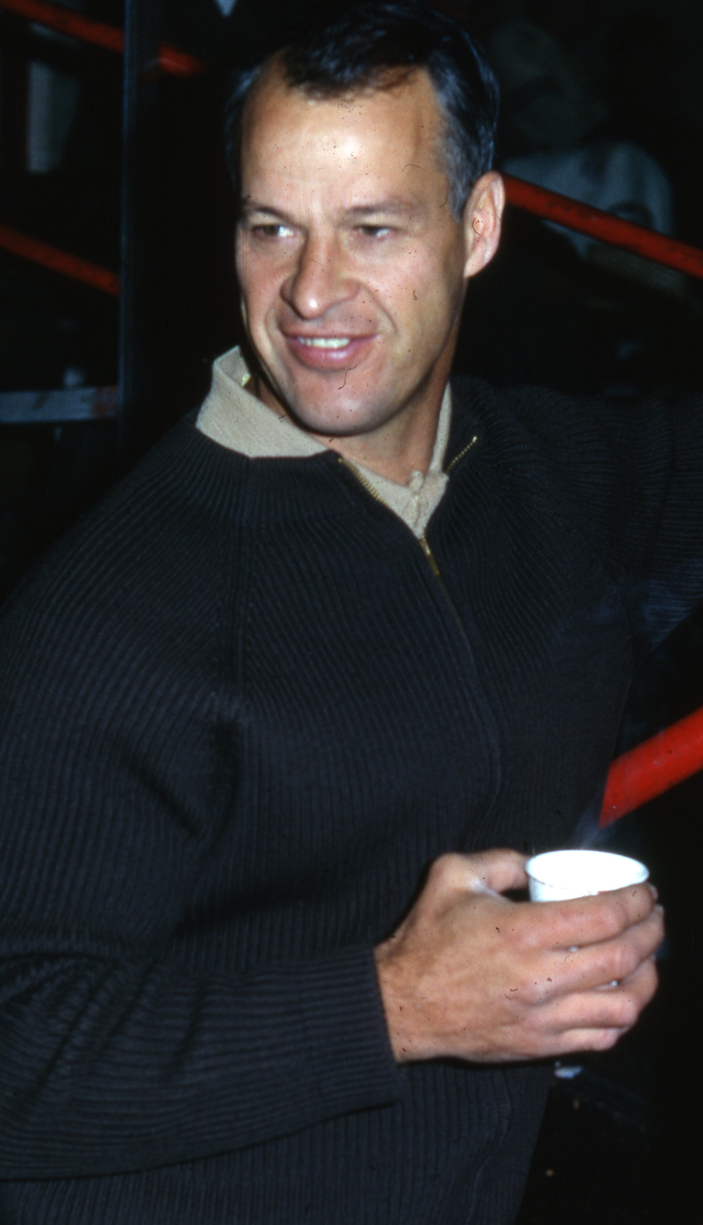 Gordie Howe relaxing at Gordie Howe Hockeyland in St. Clair Shores, Michigan.